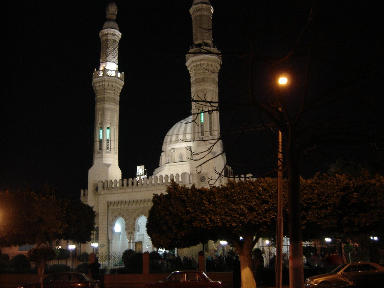 Naser Mosque in Benha city (Al-Qaliubia - Egypt)